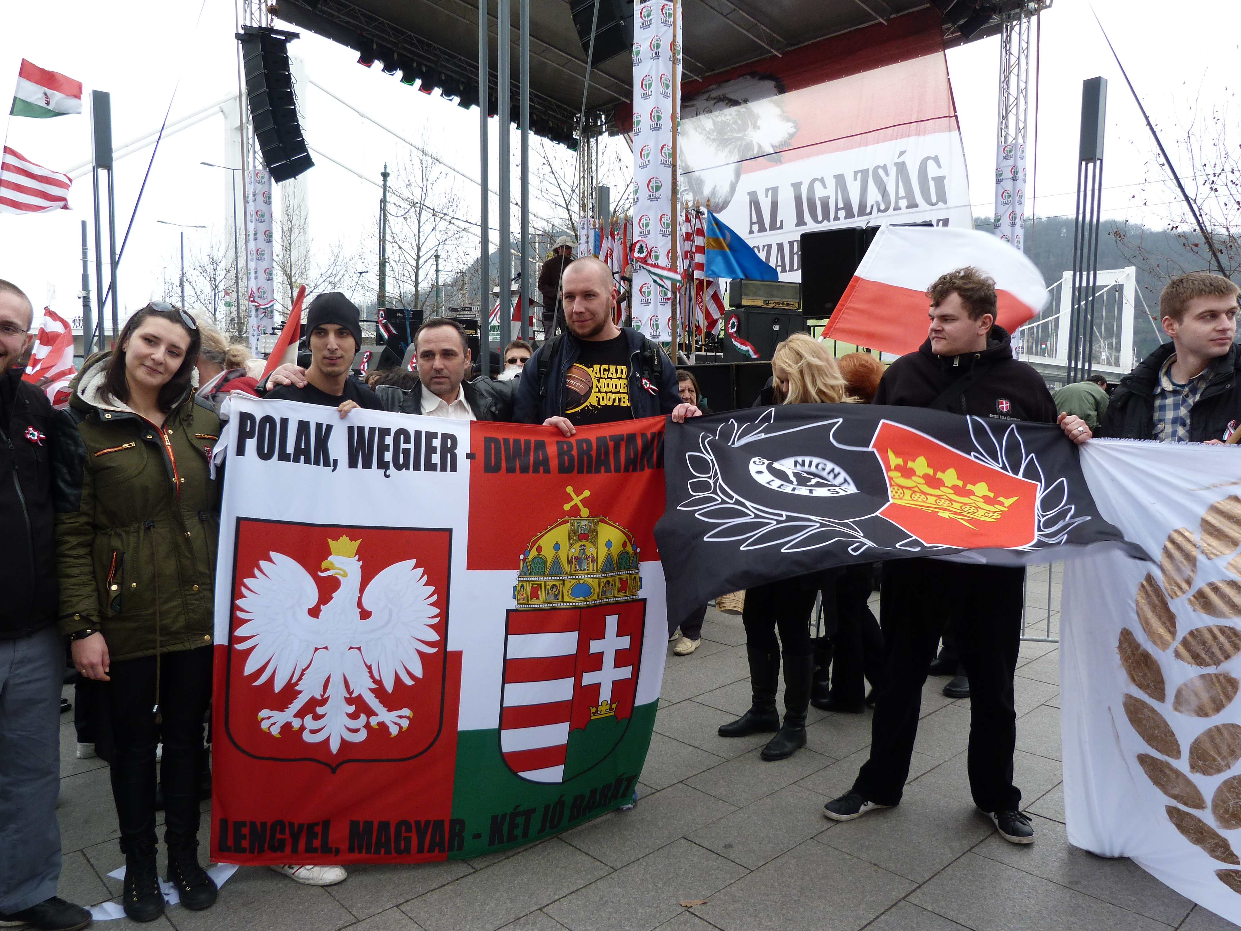 Live on the 15th of March, 2015. Downtown Budapest